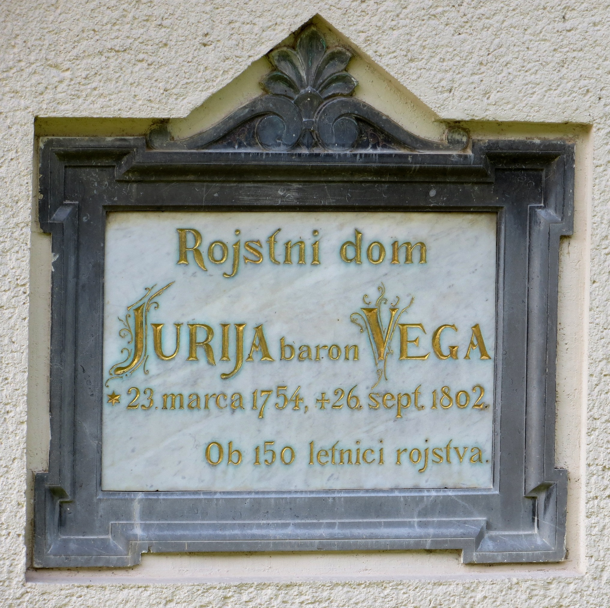 Plaque (installed in 1904) on the house at the Vehovec Farm in Zagorica pri Dolskem, Municipality of Dol pri Ljubljani, Slovenia; birthplace of Jurij Vega (1754–1802)